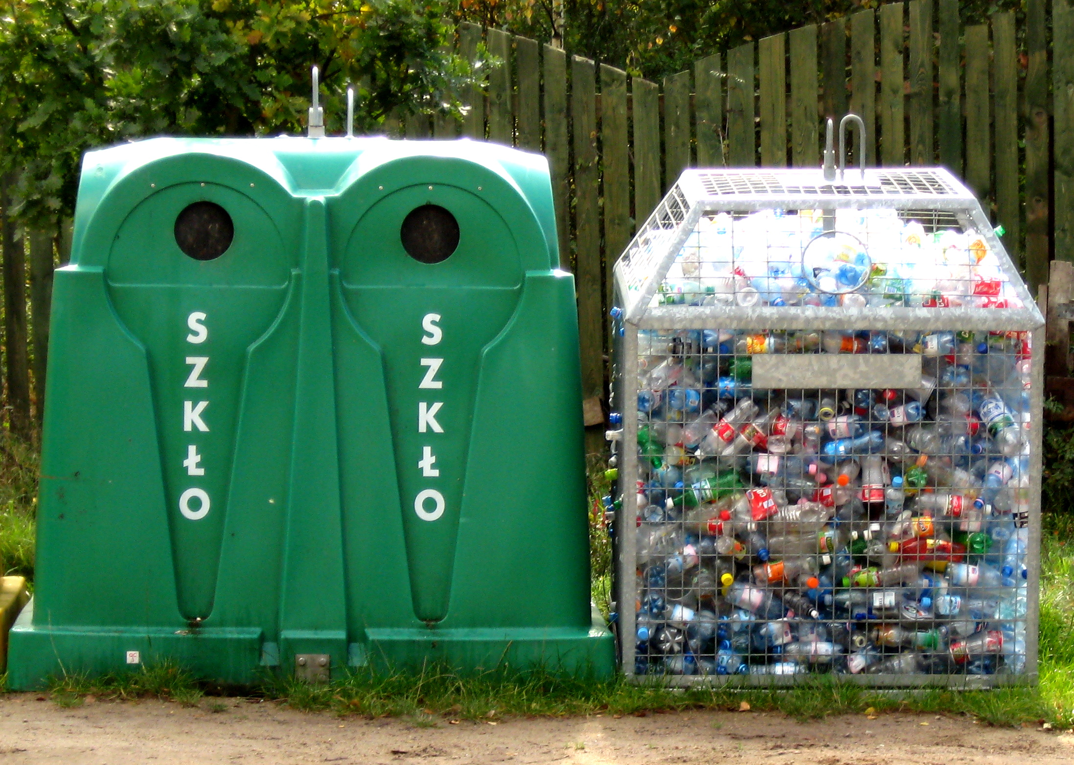 Glass and plastic (bottles) recycling in Poland (SZKŁO means GLASS)